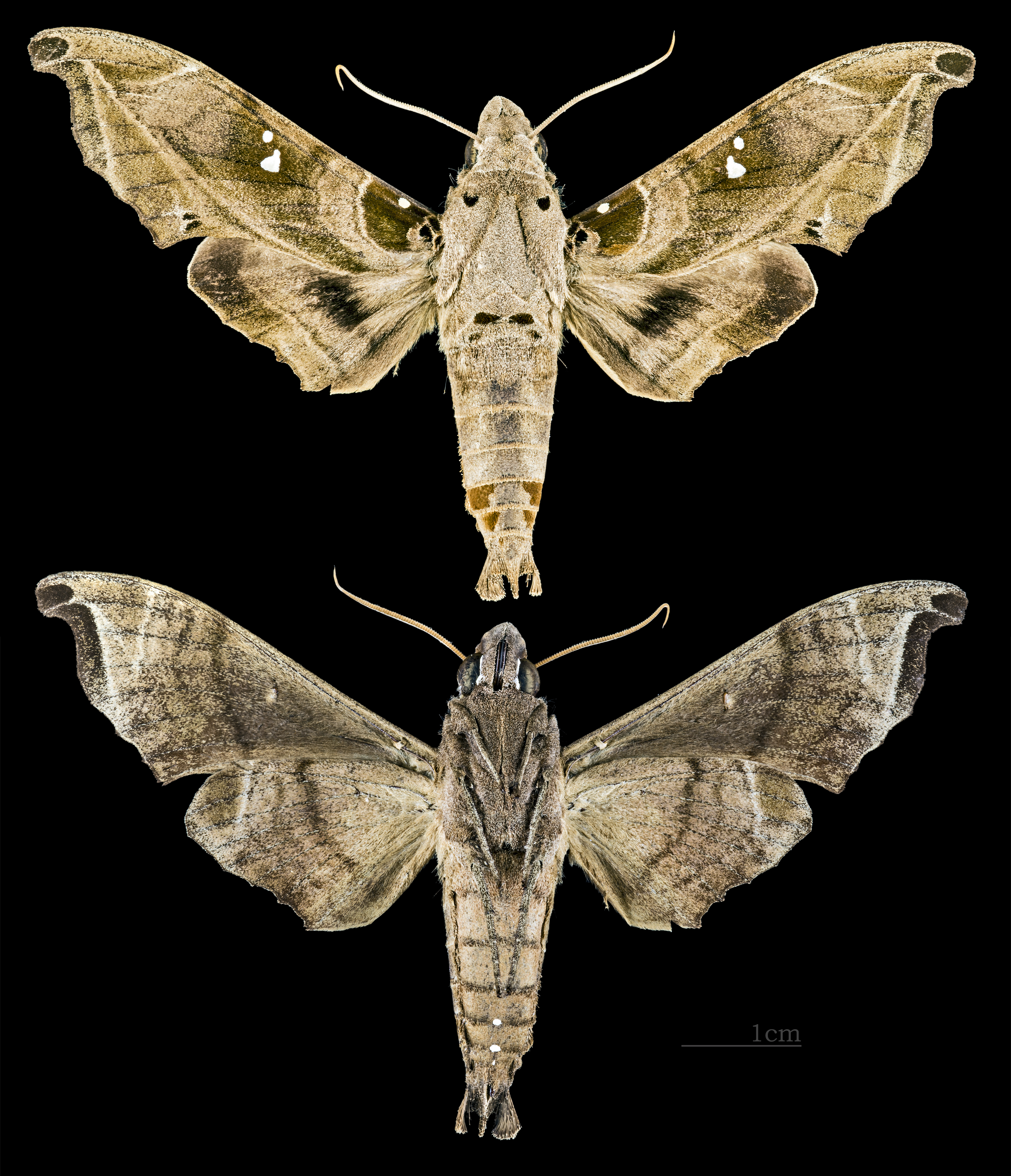 Madoryx bubastus - Two views of same specimen Collection of the Mathematician Laurent Schwartz